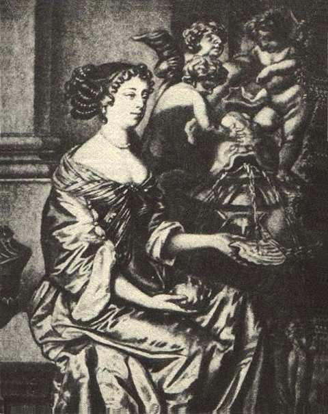 A 17th-century image of Mary Saunderson, an English actress.